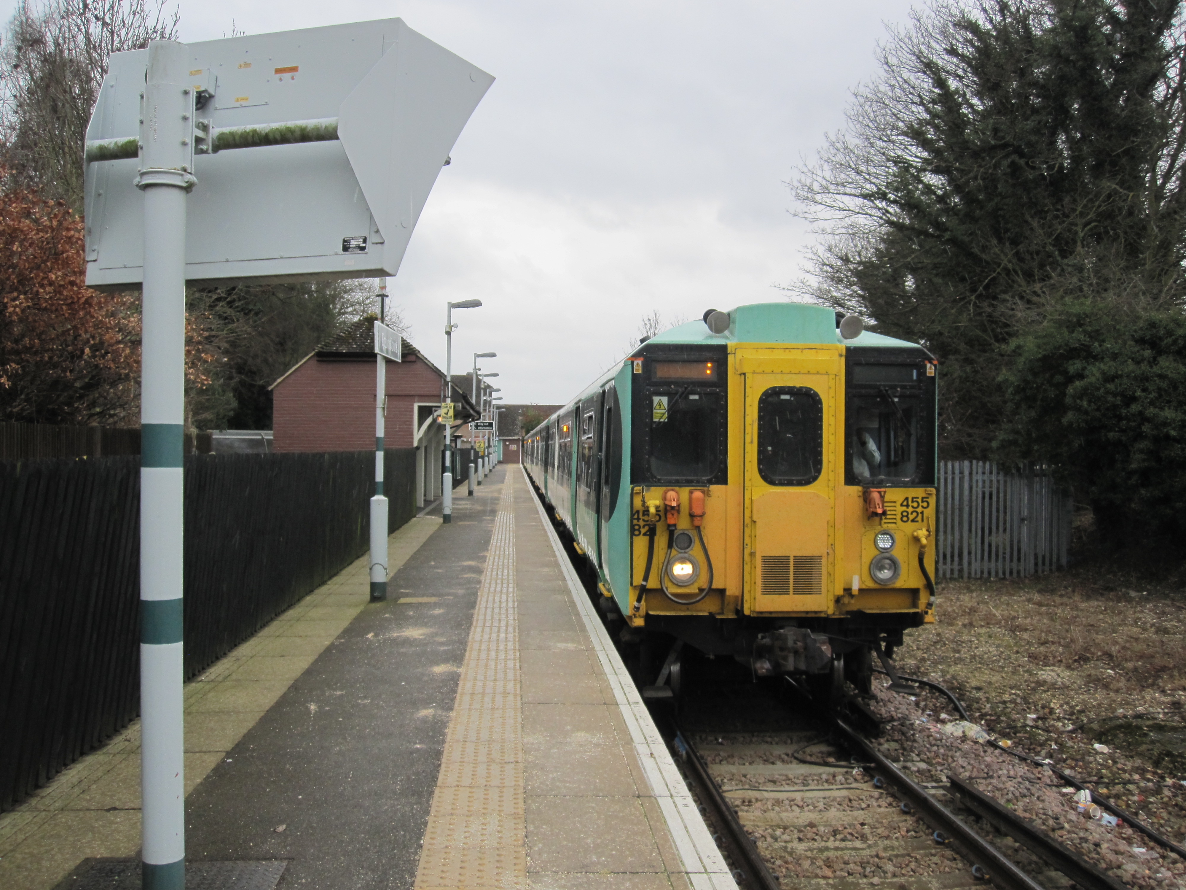 Southern class 455/8 EMU no. 455.821 waits departure on 2R65, 13:35 Epsom Downs to London Victoria. Reached on foot from Tattenham Corner during a re-visit to branches in South London and Surrey on 18 February 2012. Most of the branches on the day were just the 2nd visit ever, originally having been done back in the early 1980s. Epsom Downs has seen many changes. Starting off with 9 platforms to cater for extra trains during race meetings. Over the years the line has been cut back in length and station reduced in size. In 1989, the line was further reduced in length to allow construction of houses. The station buildings were demolished leaving basic shelter facilities and a ticket machine. The line has been singled as well leaving the route as far as Sutton with only an hourly service. Services on the branch are operated using Class 455 or Class 377 EMUs. All services on the branch are stopping services to London Victoria via Norbury, or via Crystal Palace in the evenings. The service via Norbury calls at Banstead, Belmont, Sutton, Carshalton Beeches, Wallington, Waddon, West Croydon, Selhurst, Thornton Heath, Norbury, Streatham Common, Balham, Wandsworth Common, Clapham Junction, Battersea Park and London Victoria. Services via Crystal Palace call at Banstead, Belmont, Sutton, Carshalton Beeches, Wallington, Waddon, West Croydon, Norwood Junction, Crystal Palace, Gipsy Hill, West Norwood, Streatham Hill, Balham, Wandsworth Common, Clapham Junction, Battersea Park and London Victoria. There is no Sunday service.